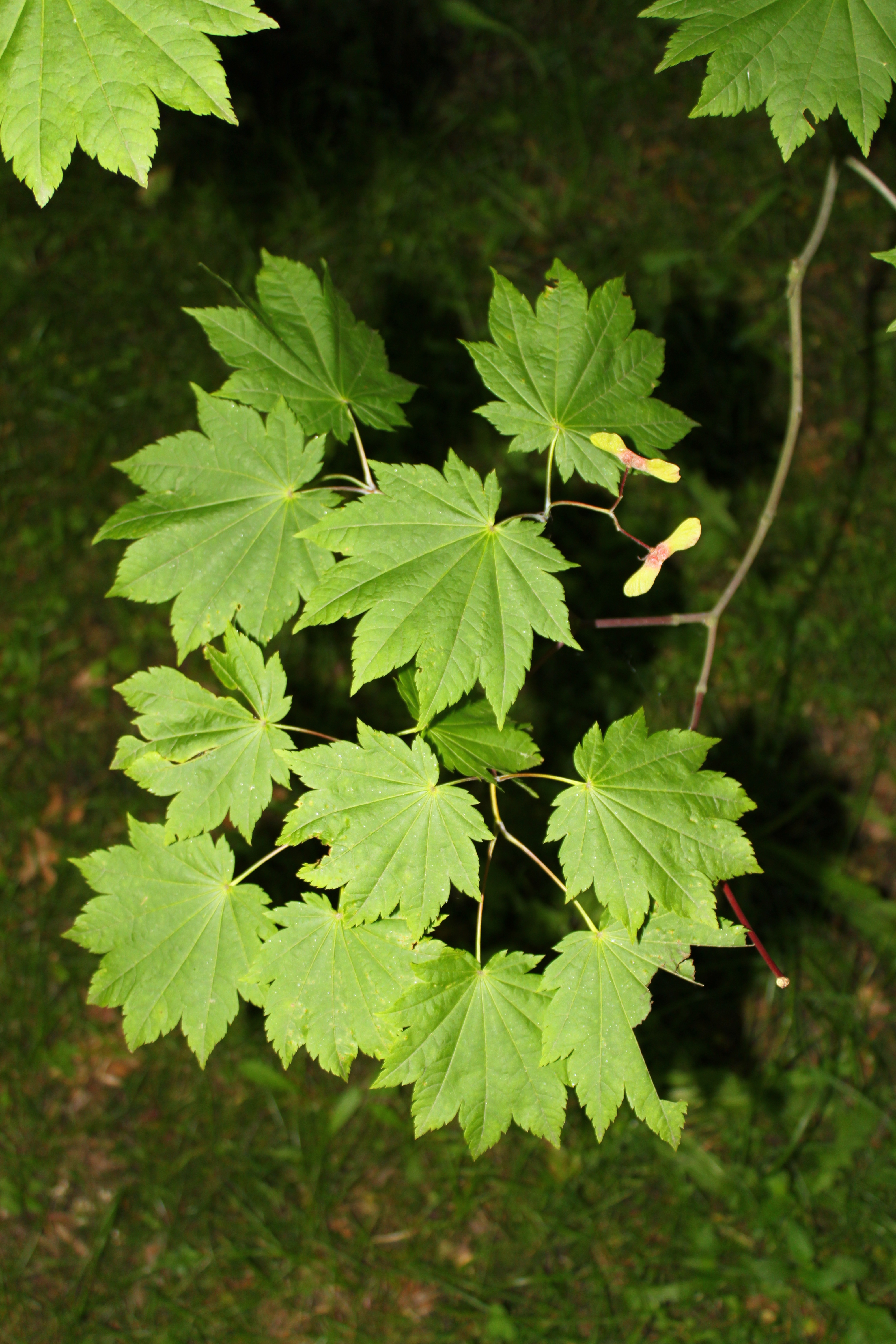 Acer japonicum in Rogów Arboretum